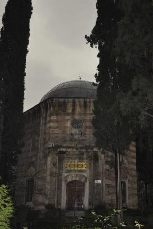 Exterior view of the mausoleum of Şehzade Mustafa, where the tomb of "Mahidevran Hatun" is located